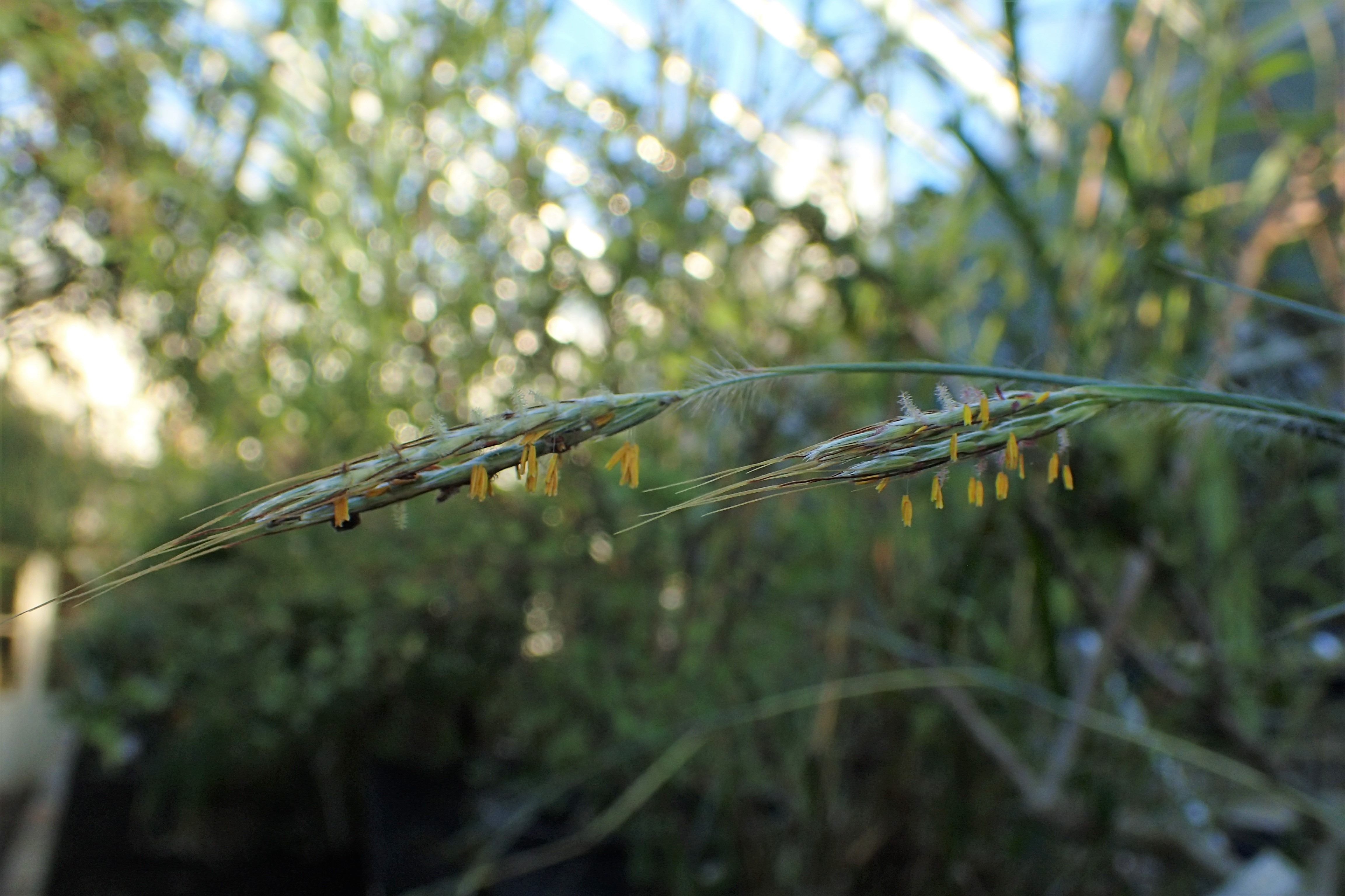 Bothriochloa bladhii in Botanical Garden of PBA Institute in Bydgoszcz